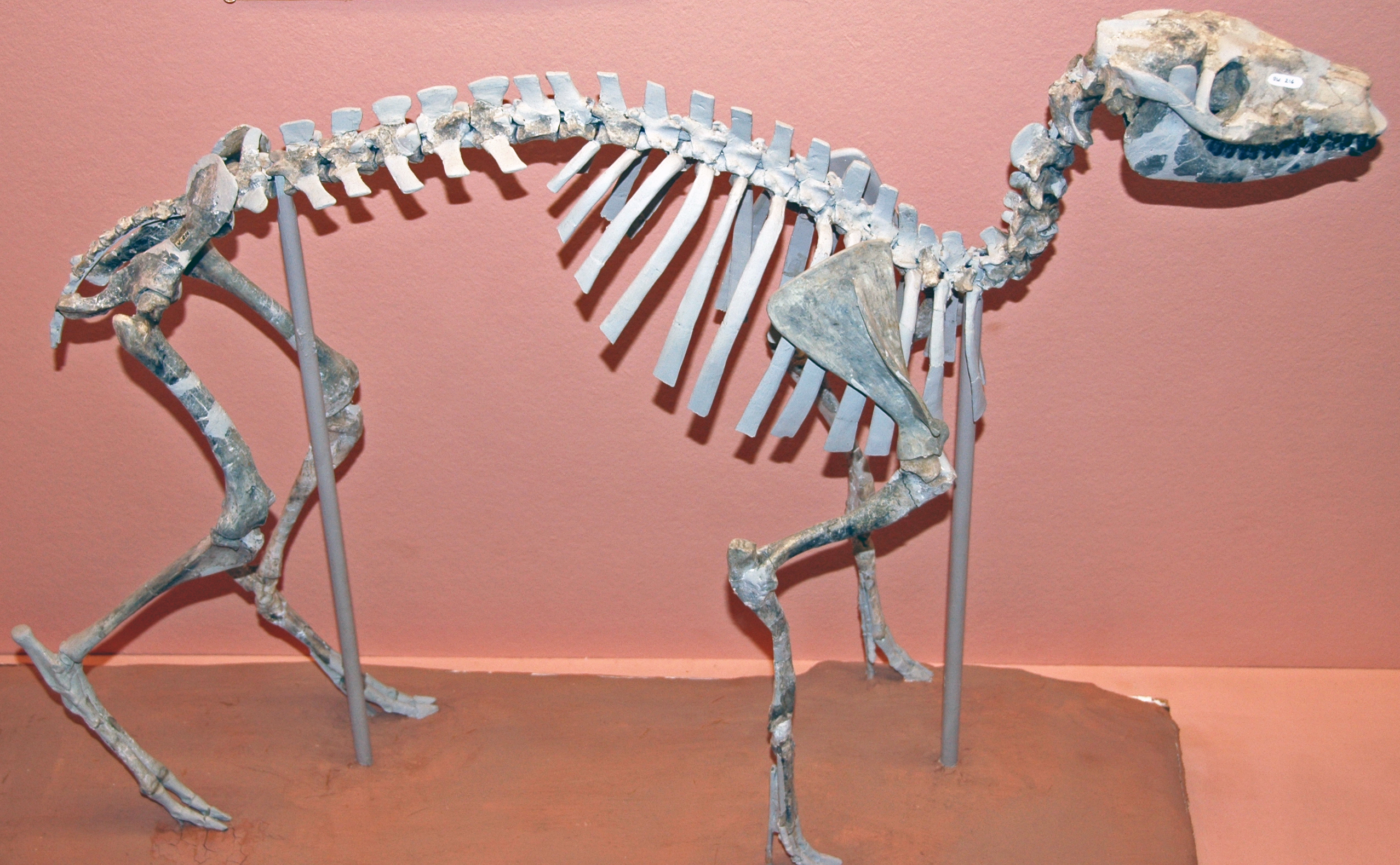 Eotylopus reedi Matthew, 1910 - fossil mammal skeleton from the Oligocene of Wyoming, USA. (UW 216, University of Wyoming Geological Museum, Laramie, Wyoming, USA) This is the holotype skeleton of the most complete oromerycid mammal every found. Oromerycids are a rare group of extinct mammals somewhat related to camels. From museum signage: "Eotylopus reedi A very primitive camel from Early Oligocene rocks near Alcova, Wyoming. Geographic Range: High Plains of Wyoming, Colorado, and Nebraska, Rio Grande Rift of New Mexico, Big Bend area of Texas, Jefferson River Basin of Montana, Simi Valley of southern California. Adult Size: About 15 inches (38 cm ) at the shoulder. Habitat and Diet: Forests. Browsing herbivore (leaf eater). Characertistics: This skeleton (UW 216) of Eotylopus reedi is the most complete specimen of the Oromerycidae. Among the Tylopoda, the Oromerycidae are thought to be the most closely related to the Camelidae. The relationship to the camels is based on the auditory bulla (ear region), which is folded upon itself and filled with spongy bone. Compared to the camels, its skeleton and dentition are very unspecialized. The back part of the orbit is note completely closed, there is no opening in the skull in front of the orbit, the premolars are simple, blade-like teeth, and the molars lack accessory cusps and expanded grinding surfaces. Note the slender body and limbs, which presage the skeletal anatomy of the more derived camels. This skeleton was found by W. H. Reed, the first curator of the University of Wyoming Geological Museum. Reed discovered the skeleton in rocks of the White River Formation near Alcova, Wyoming in the late 1800s or early 1900s. " Classification: Animalia, Chordata, Vertebrata, Mammalia, Artiodactyla, Tylopoda, Oromerycidae Stratigraphy: White River Formation, Chadronian, Lower Oligocene Locality: unrecorded/undisclosed site near Alcova, southeast-central Wyoming, USA See info. at